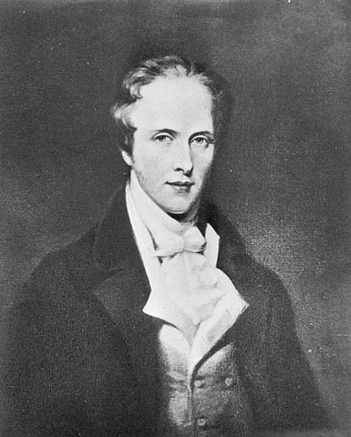 From The Library and Archives Canada, in the public domain